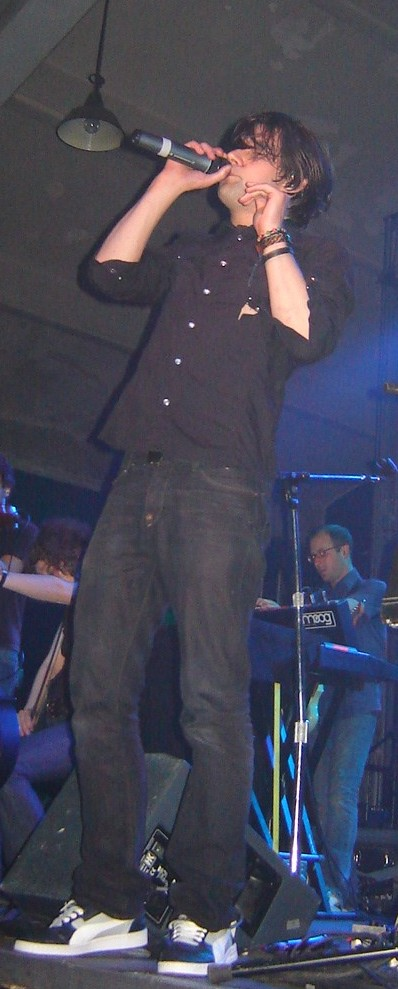 Conor Oberst performing with Bright Eyes at Schlachthof, in Wiesbaden, Germany.